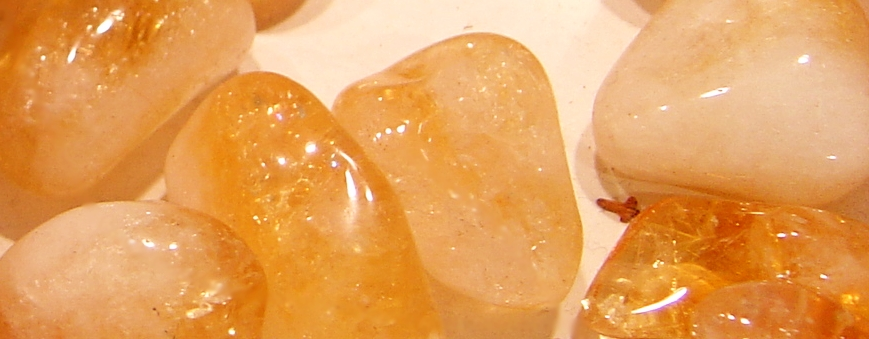 Citrine (heated amethyst) gemstone.